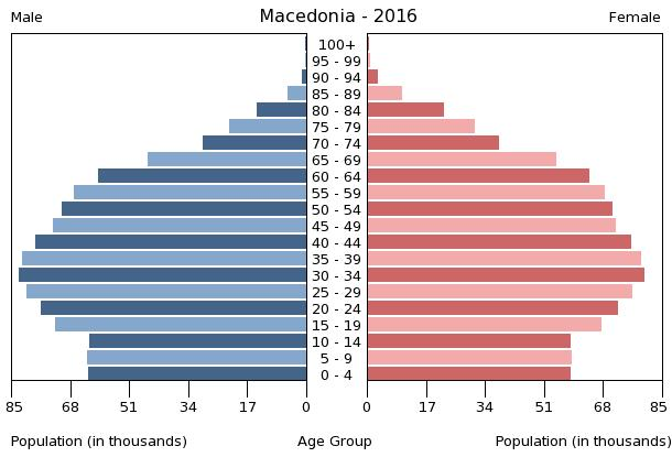 The population pyramid of Macedonia illustrates the age and sex structure of population and may provide insights about political and social stability, as well as economic development. The population is distributed along the horizontal axis, with males shown on the left and females on the right. The male and female populations are broken down into 5-year age groups represented as horizontal bars along the vertical axis, with the youngest age groups at the bottom and the oldest at the top. The shape of the population pyramid gradually evolves over time based on fertility, mortality, and international migration trends.